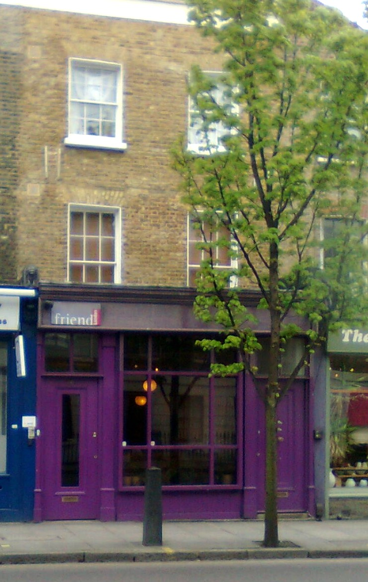 The office of London Friend the LGBT counselling and befriending charity, 86 Caledonian Road, Islington, London N1 9DN. Taken with my mobile phone, 4 May 2012